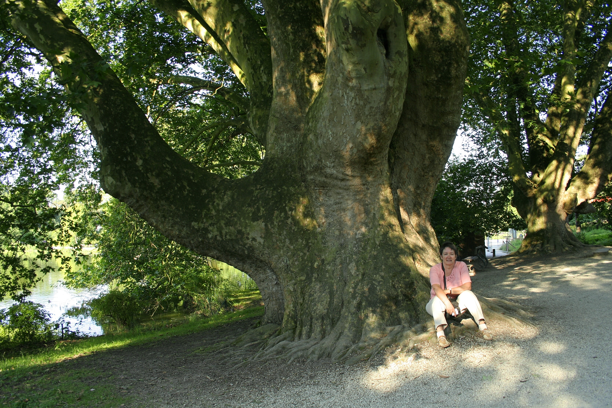 Oriental plane